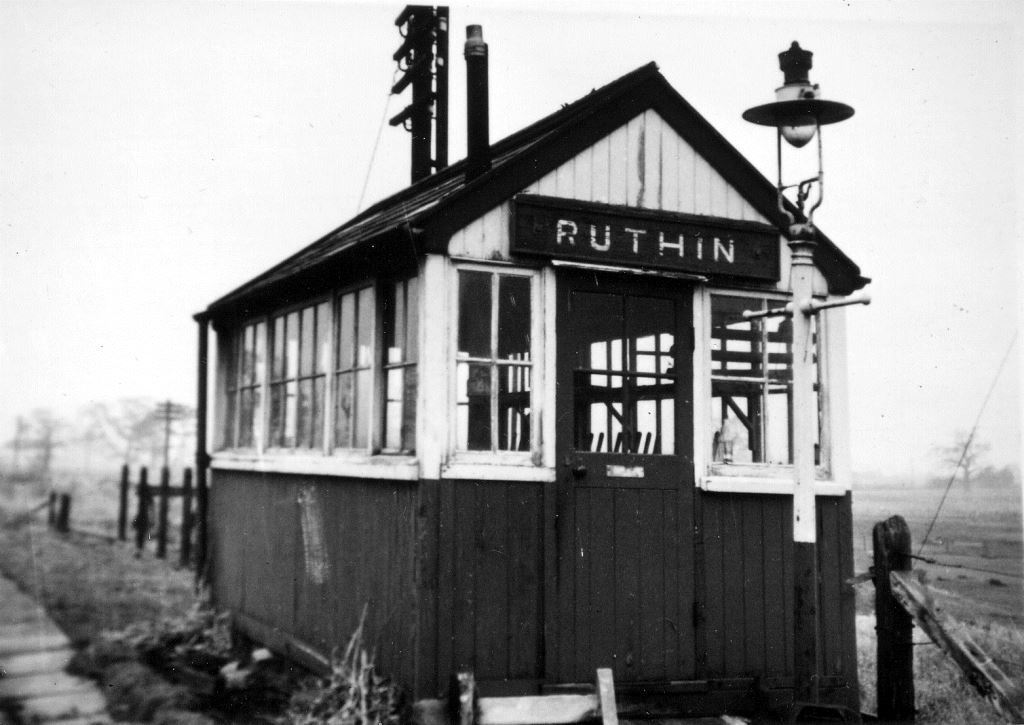 Ruthin Station 1963 Bevan Price